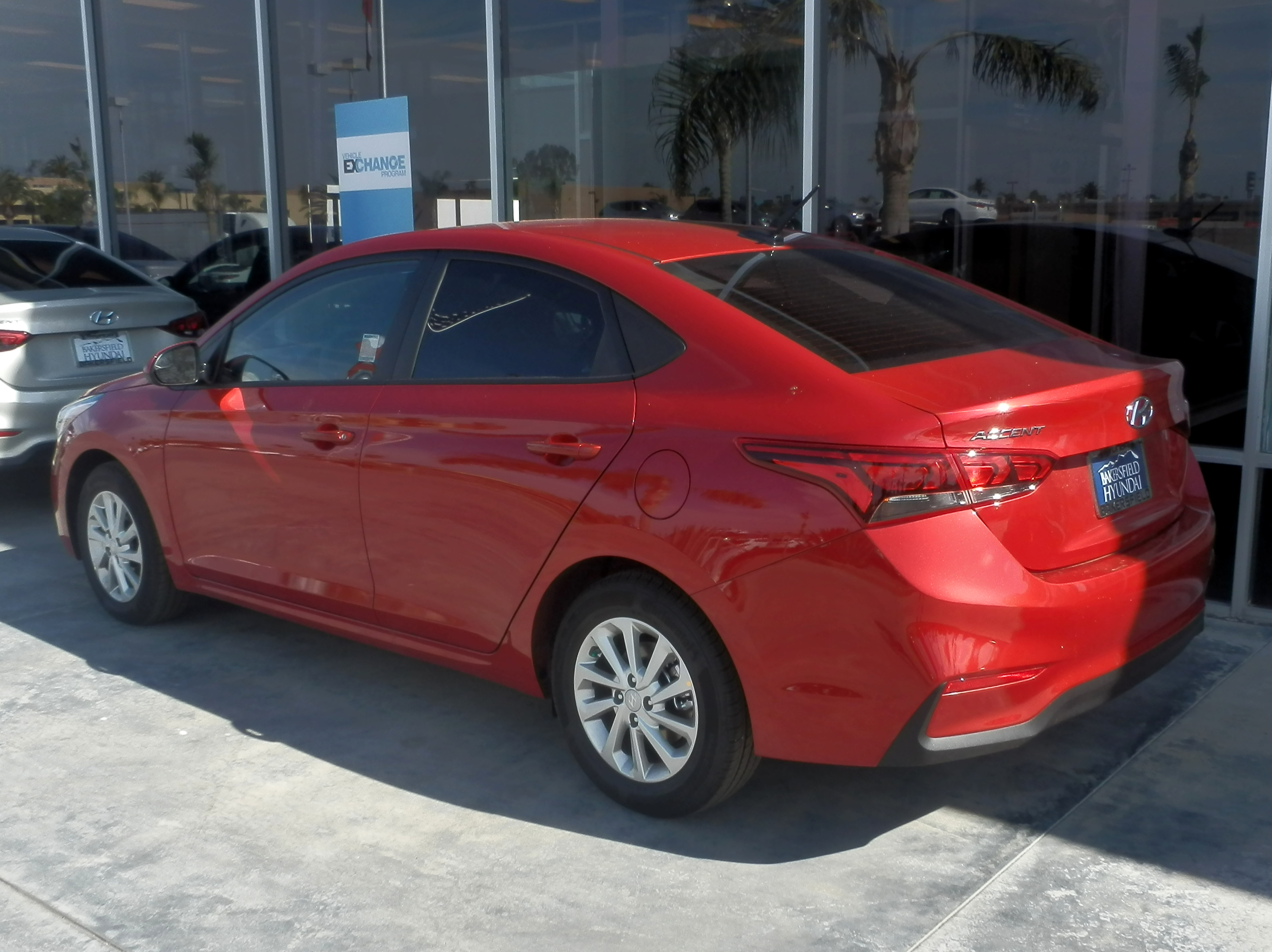 Hyundai Accent (YC) in Bakersfield